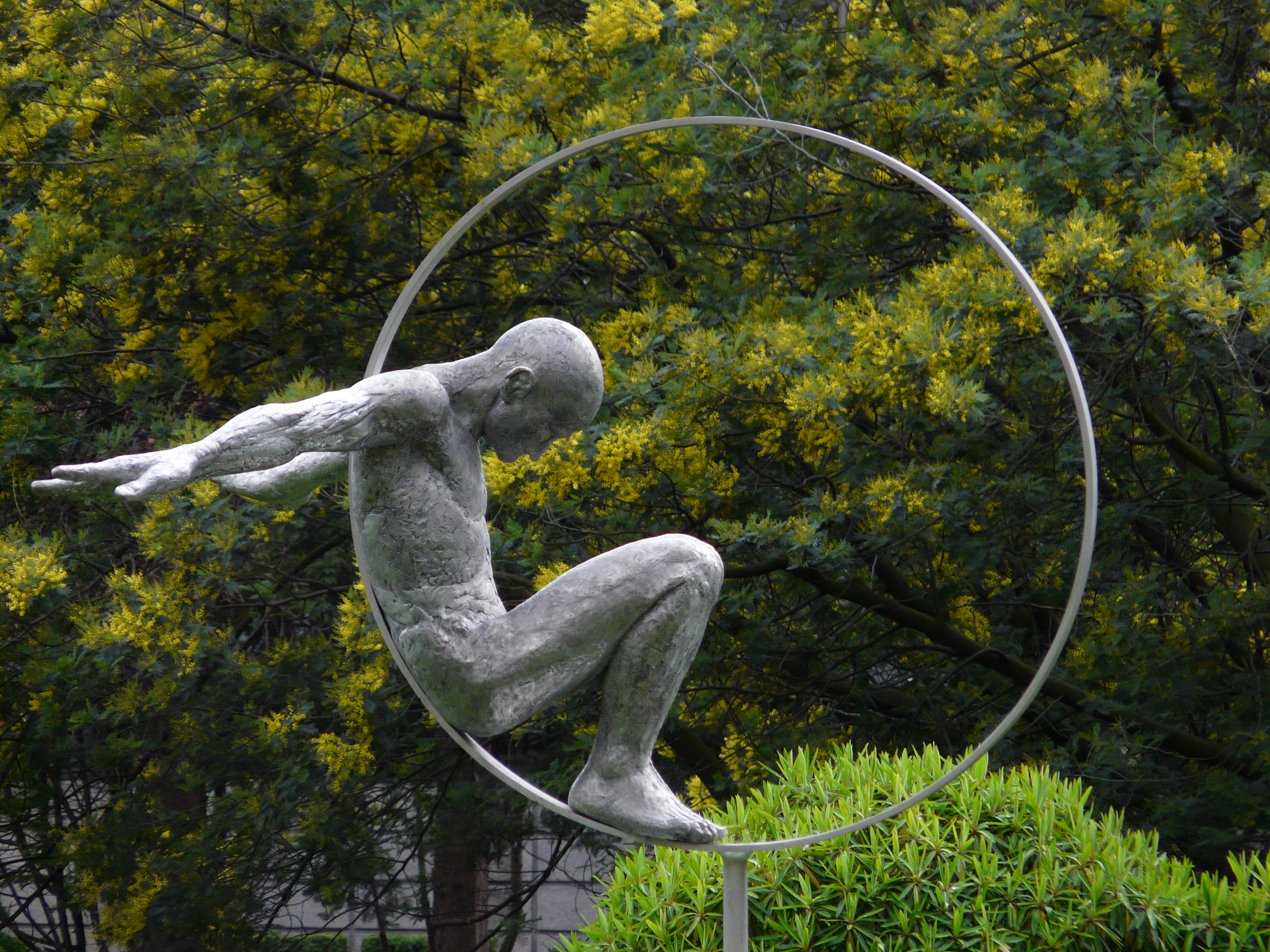 'Volare' by Lorenzo Quinn, North Gardens, Cadogan Place, London, UK.